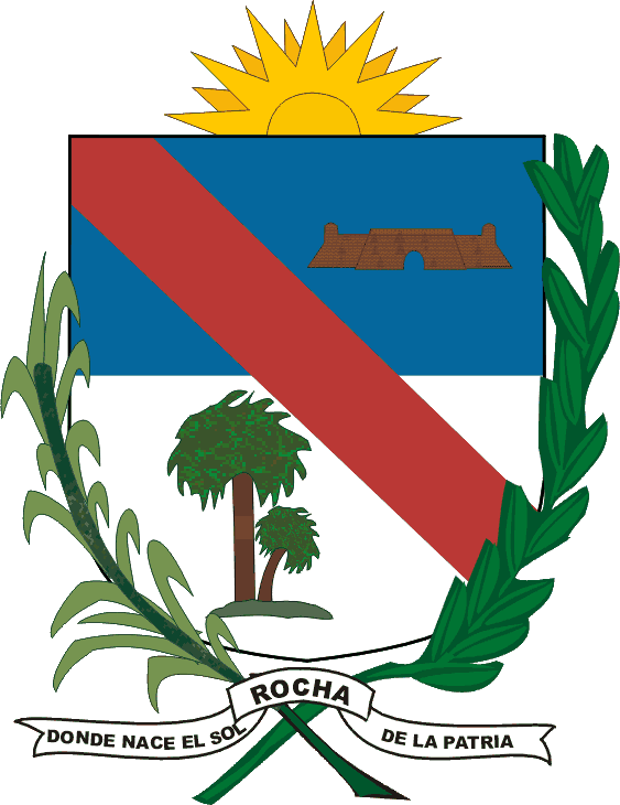 Coat of Arms of the Department of Rocha, Uruguay. Drawn by: Jordevi